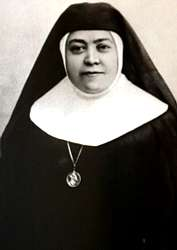 photo of Bonifacia Rodriguez Castro